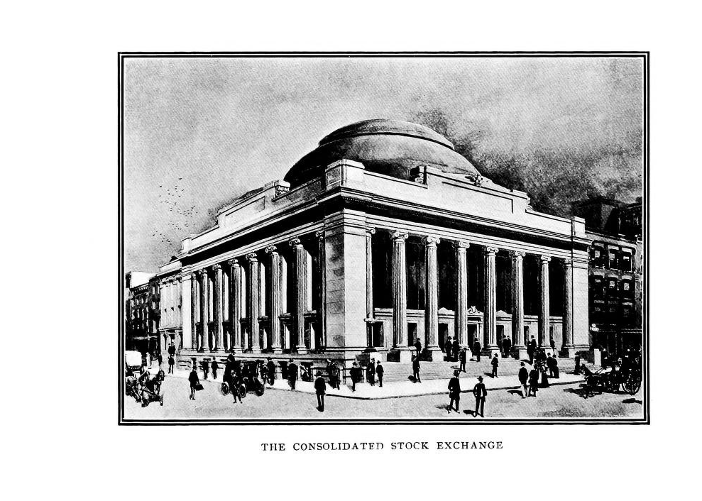 Circa 1907 drawing of the Consolidated Stock Exchange of New York (1885-1926), which was also known as the New York Consolidated Stock Exchange